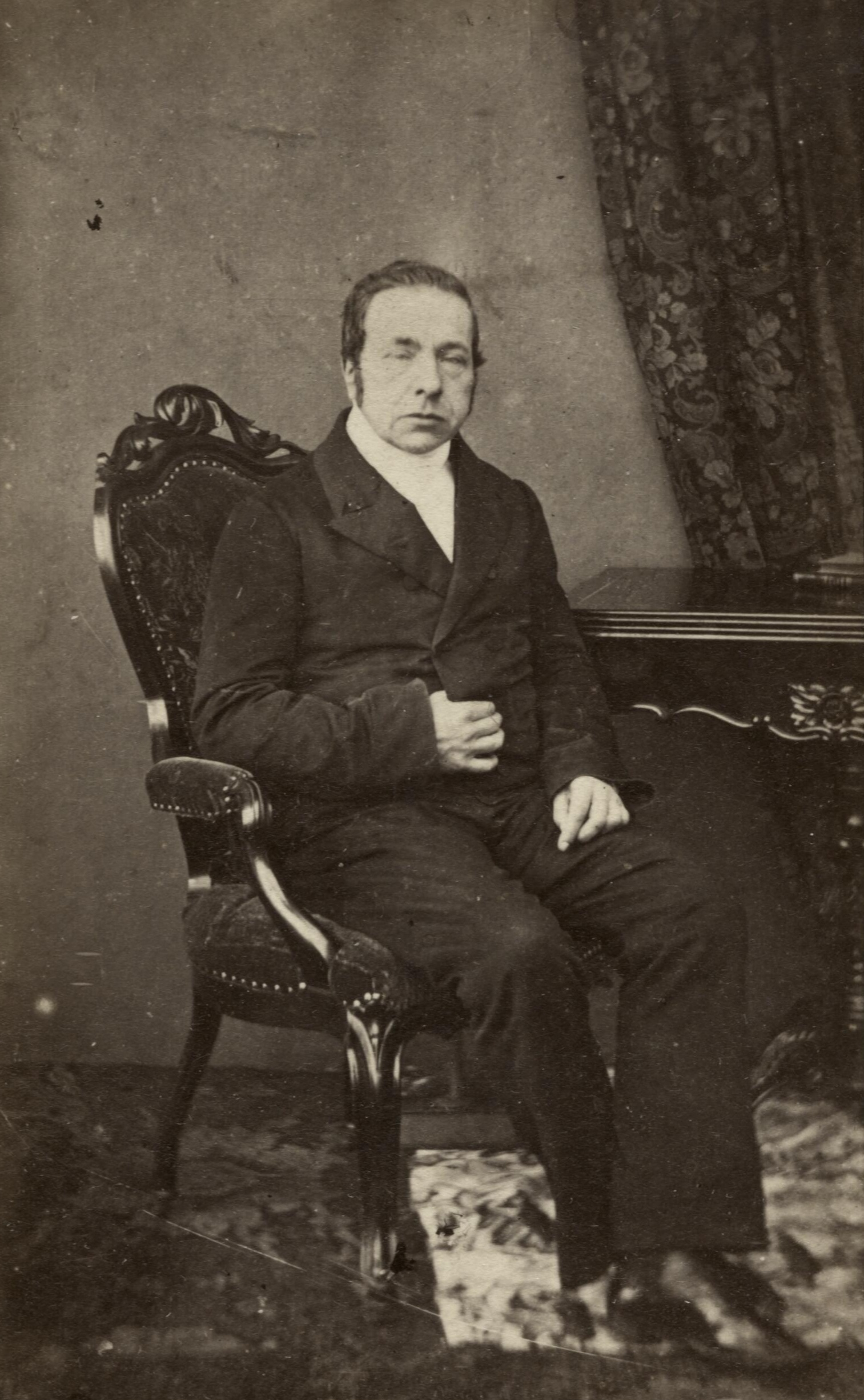 Photograph of Seerp Brouwer (1793-1856)